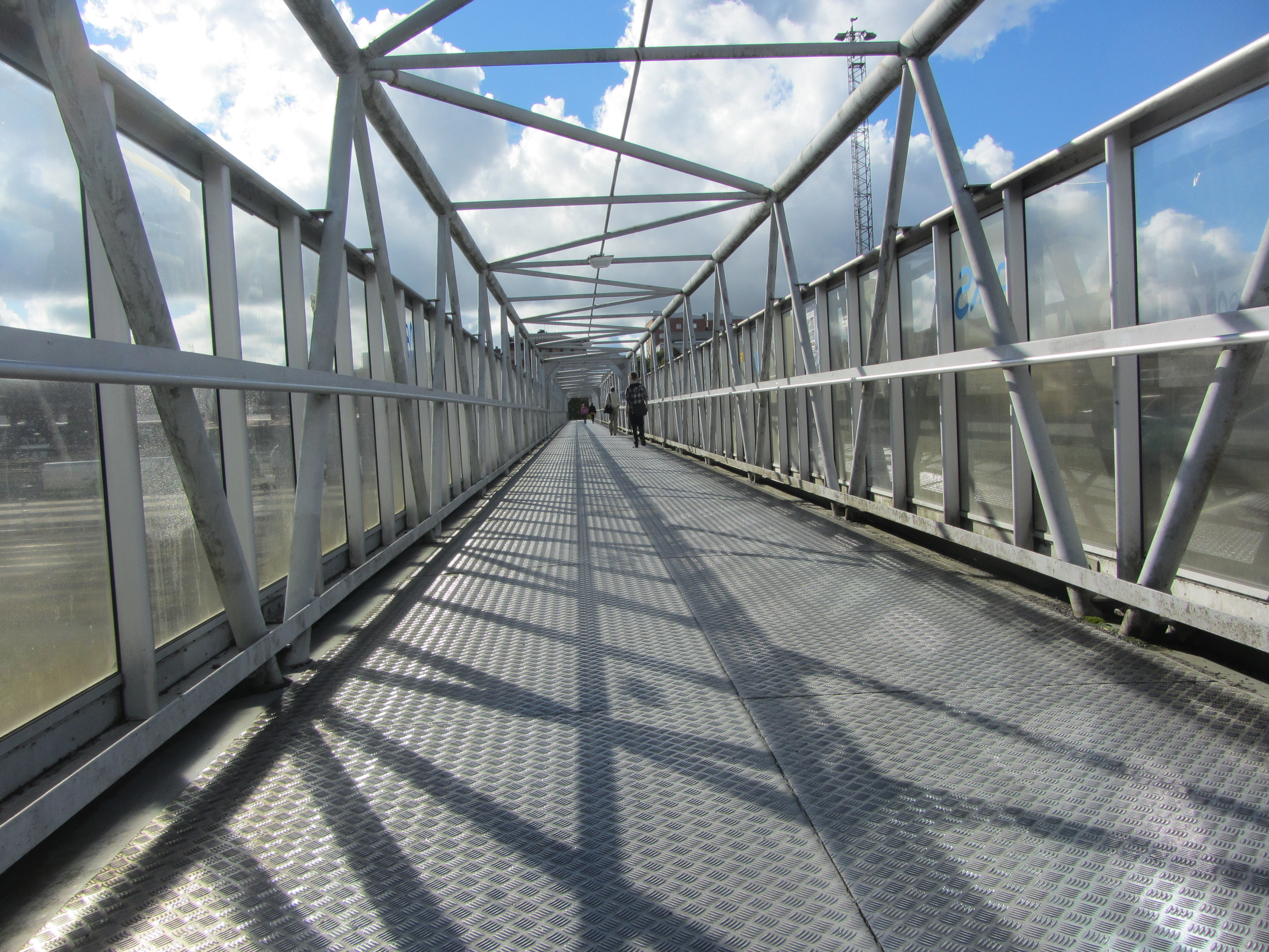 Pedestrian bridge across the main railway lines in Turku, Finland